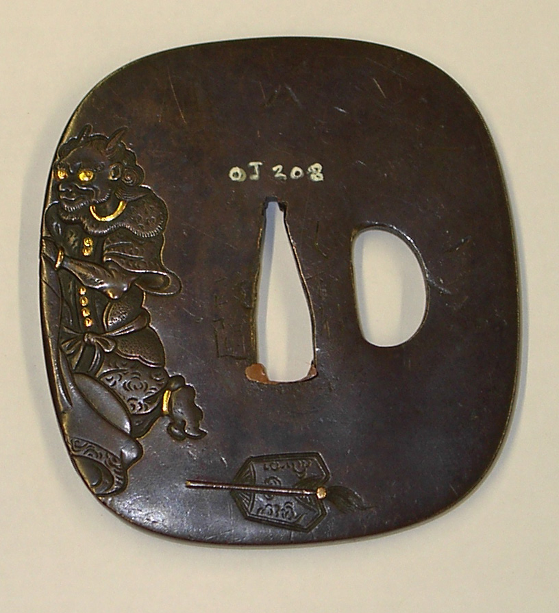 Object Name: Tsuba Object Name: Sword Fitting Object Number: OJ208 Summary: A copper tsuba depicting Shōki (鍾馗) and a demon. Production Place: Japan Description: Copper, nadekaku gata, kaku mimi tsuba in the Hamano Nara Style. The nakago ana has copper sekigane. The design in shishiai bori, literally complexion carving, with gold inlay shows Shoki on the omote (front) and a demon on the ura (back). The mei reads: Otsuryūken Masayuki. Joly confirms that the maker Masayuki is the same person as Shōzui (政随), an important founder member of the Hamano (浜野) branch of the Nara School. Mr. Hara Shinkichi has identified that Shōzui, or Masayuki , also used the names Miboku and Otsuryūken (1695-1769). Dimensions: 7.5cm x 7cm Colour: Brown Gold Link